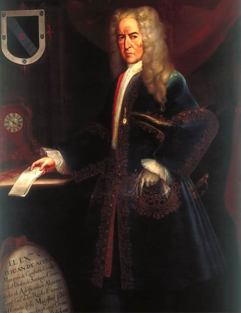 Viceroy Juan de Acuña, 2nd Marquis of Casa Fuerte (1658-1734)